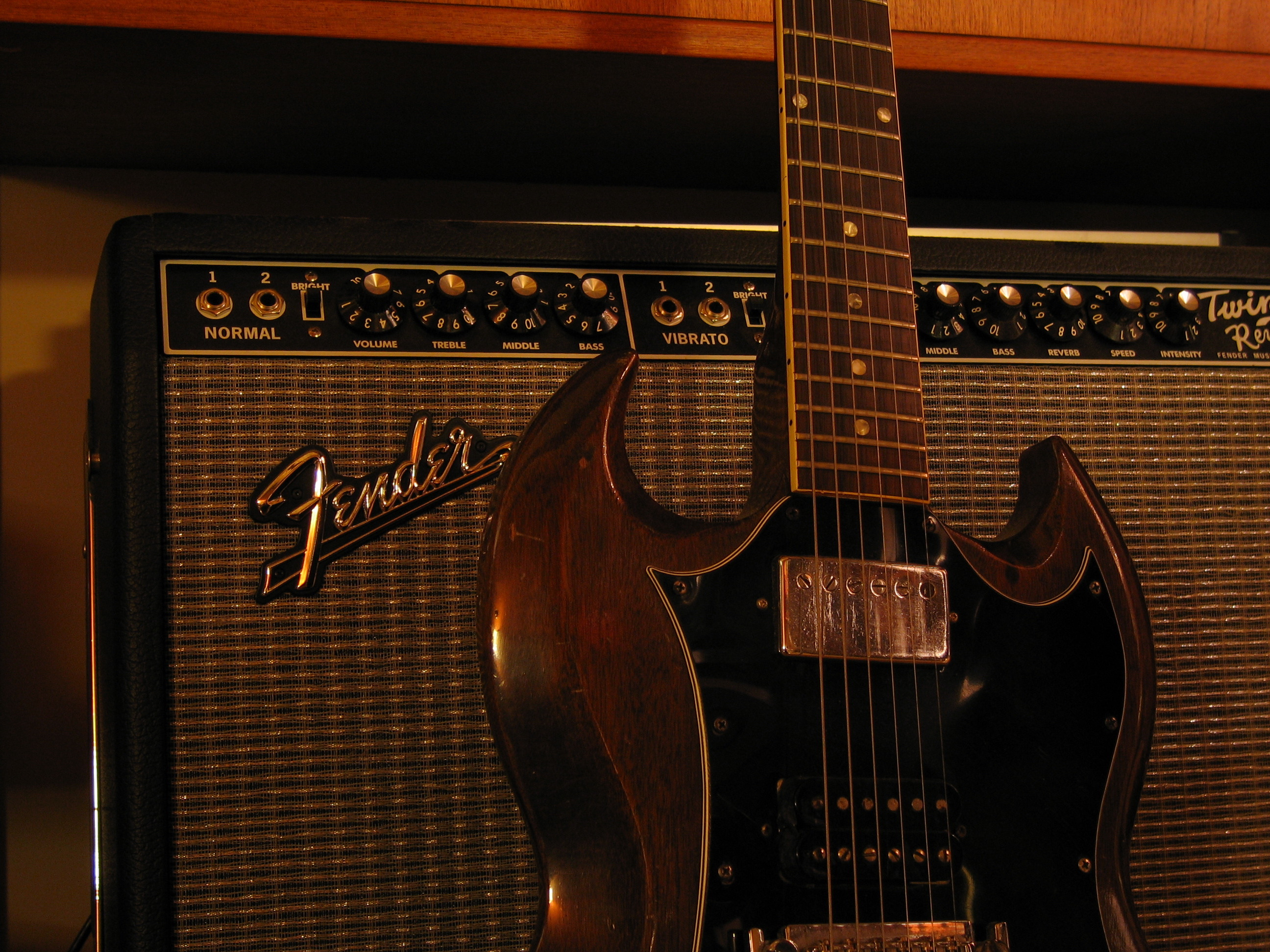 1969 Gibson SG and Fender Twin Reverb blackface reissue